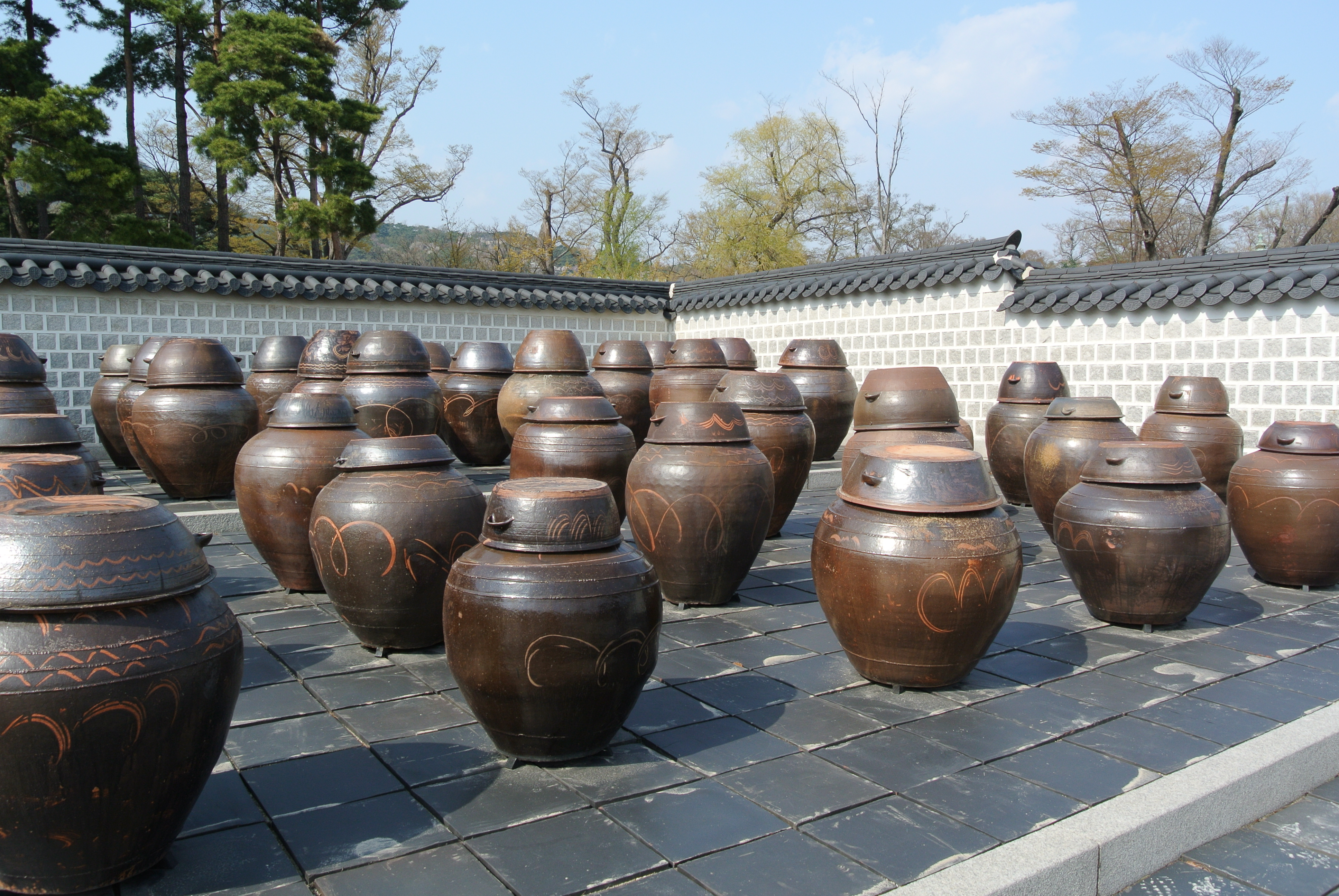 Jangdokdae at Gyeongbok palace, Seoul.